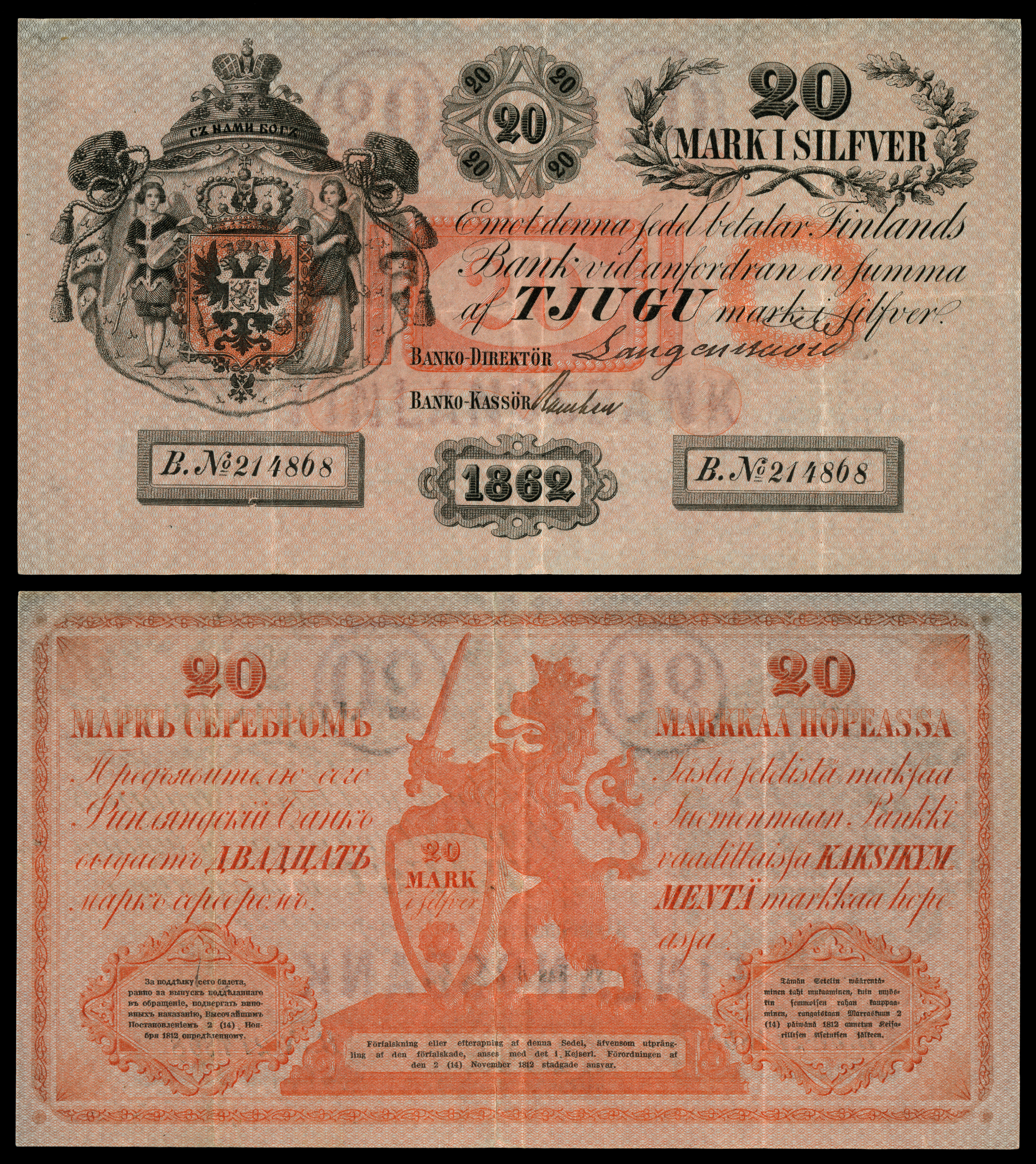 20 Finnish markka note (1862), from the first issue of Markka (1860–62). Reverse text printed in both Finnish and Russian. Hand-signed by the bank’s director and cashier.